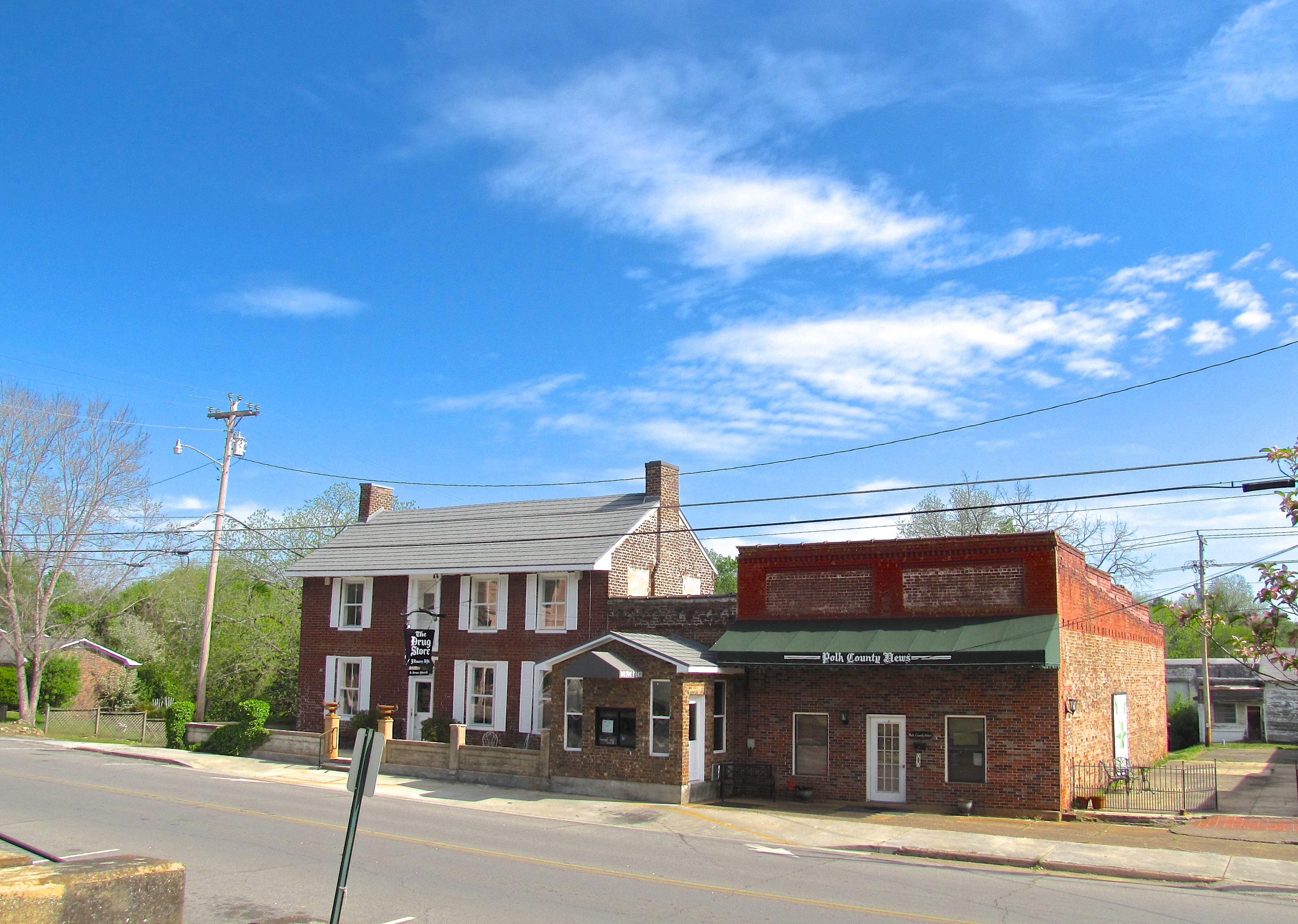 The William Wiggins House, now home to The Drug Store, in Benton, Tennessee, United States.